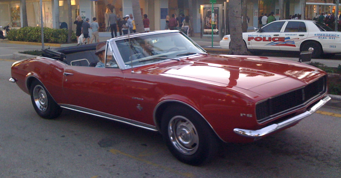 1967 Chevrolet Camaro RS convertible, finished in red